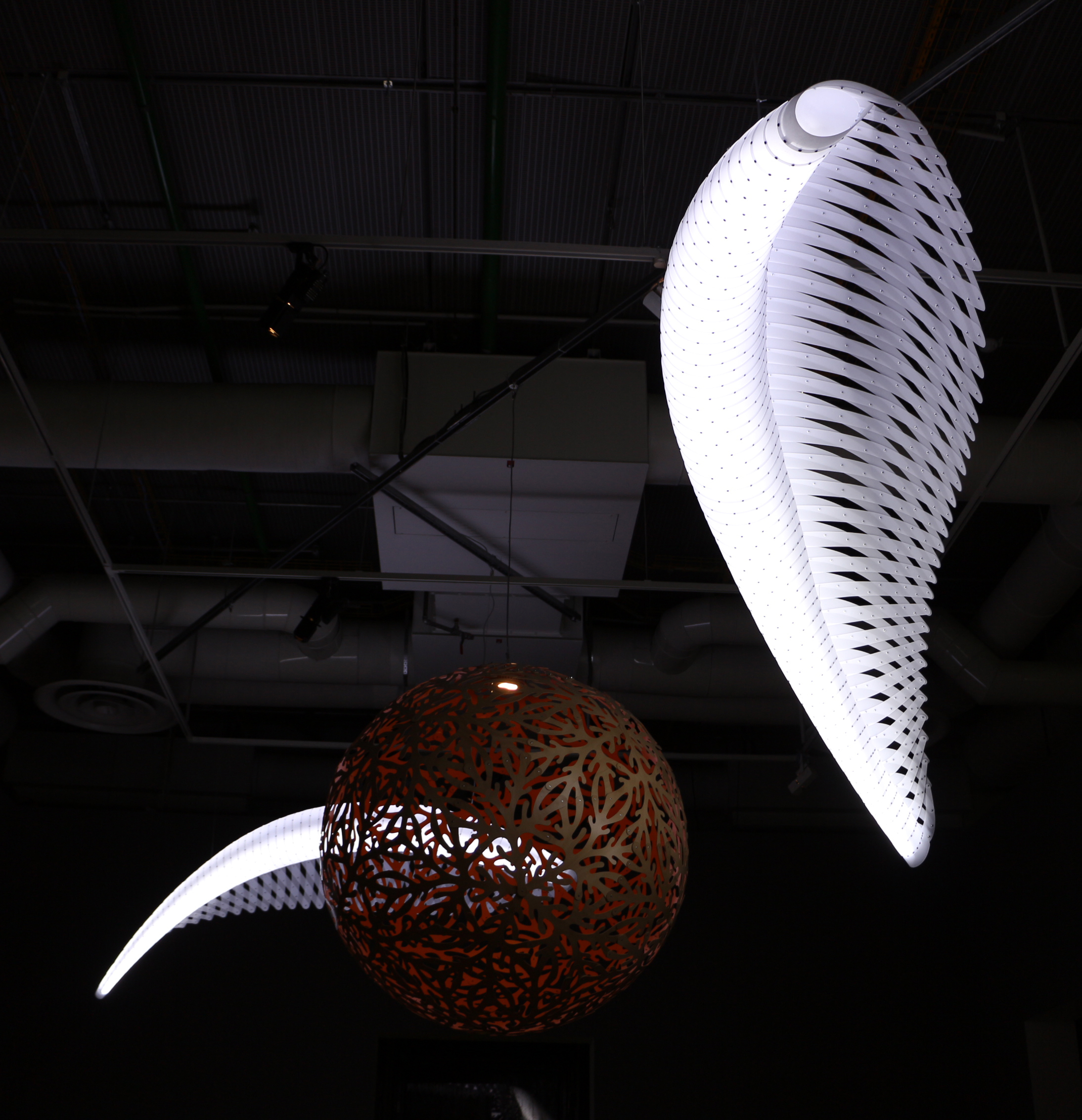 Decorative arts in the Musée national d'art moderne